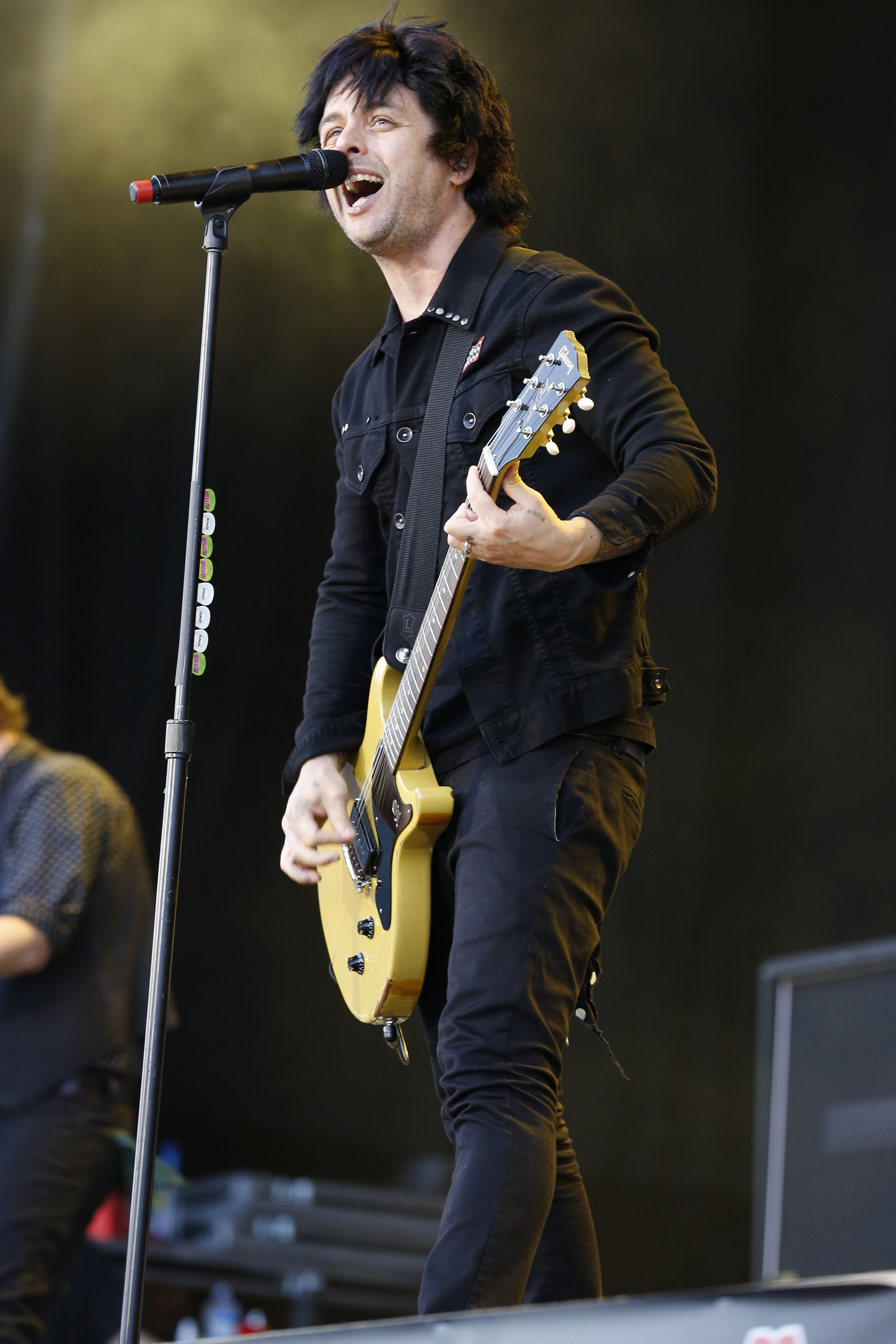 Billie Joe Armstrong, singer and guitarist of Green Day, stands on the Center Stage of Rock im Park-Festival 2013.